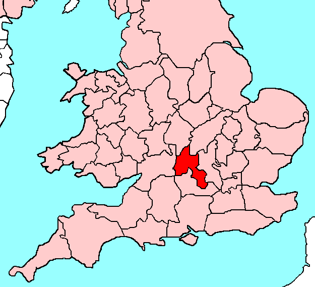 Oxfordshire shown within England, 1888–1974